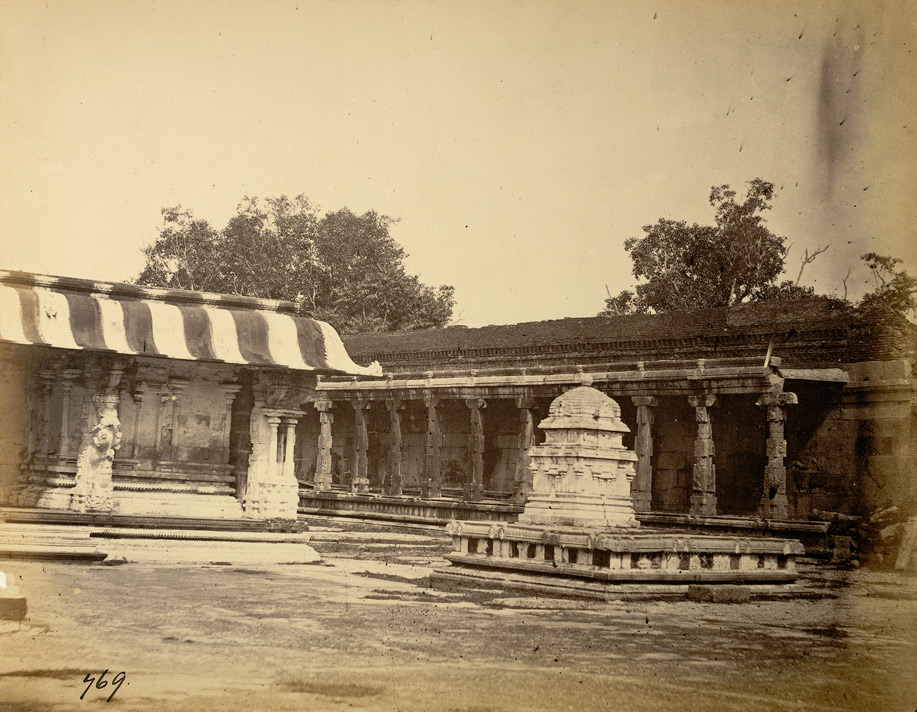 Photograph of the Kailasanatha Temple at Taramangalam in Tamil Nadu, taken by an unknown photographer in c.1870, from the Archaeological Survey of India Collections. This temple, dedicated to Shiva, bears inscriptions from the Hoysala, Pandya and Vijayanagar periods. Part of the temple existed as early as 1260 but the majority was built in the first half of the 17th century. The temple consists of many enclosures or prakarams, entered through a five tiered pyramidal gopura, or gateway, covered with stucco figures of the various divinities. The outer pillars of the mandapa or hall are carved in high relief with rearing horses and riders, rearing yalis, mythical animals with riders. The overhanging eave is enlivened with sculpted figures of monkeys. This is a view of the mandapa or hall with the surrounding colonnade and a small free-standing shrine in the foreground.